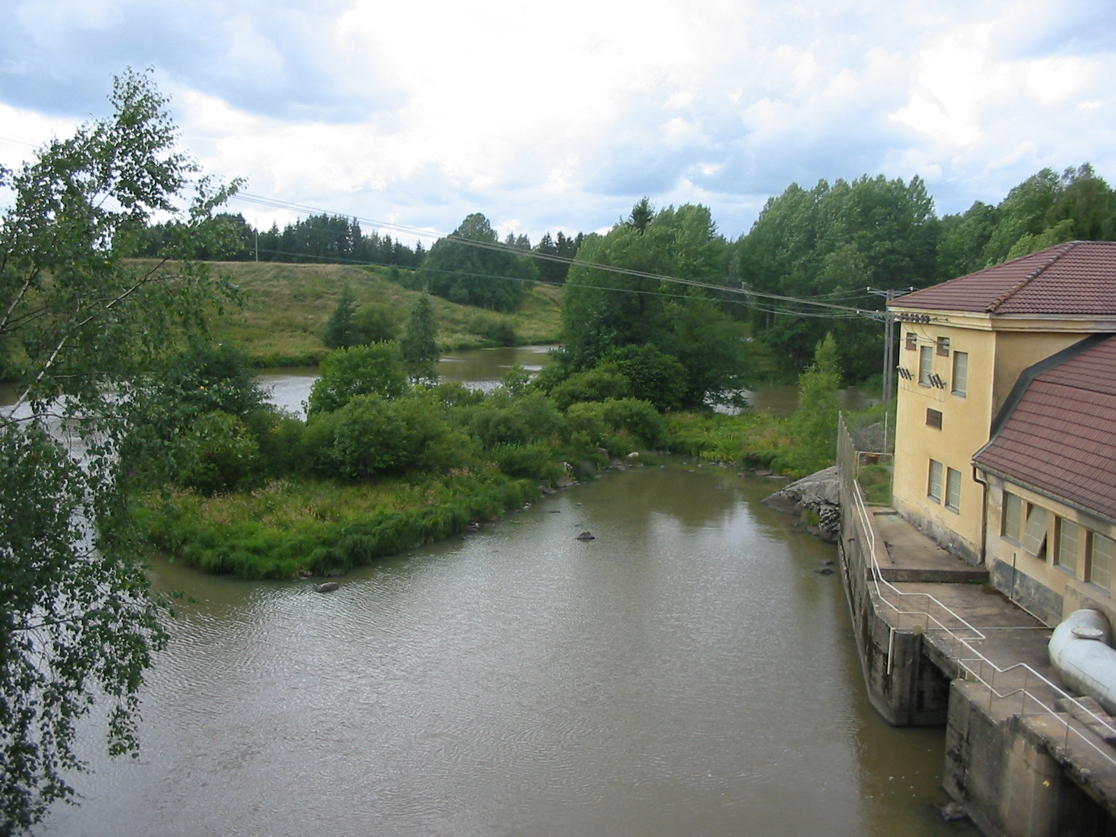 Juvankoski rapids in Paimionjoki Finland